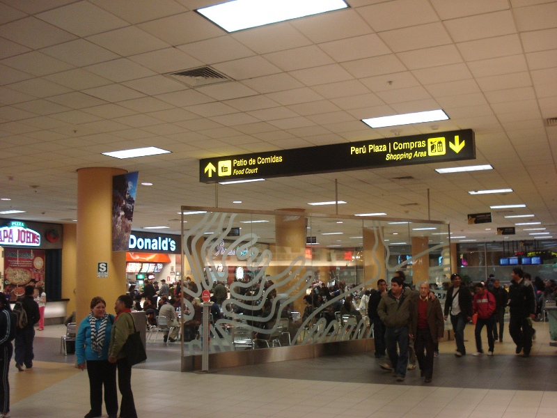 LIM - Food court area